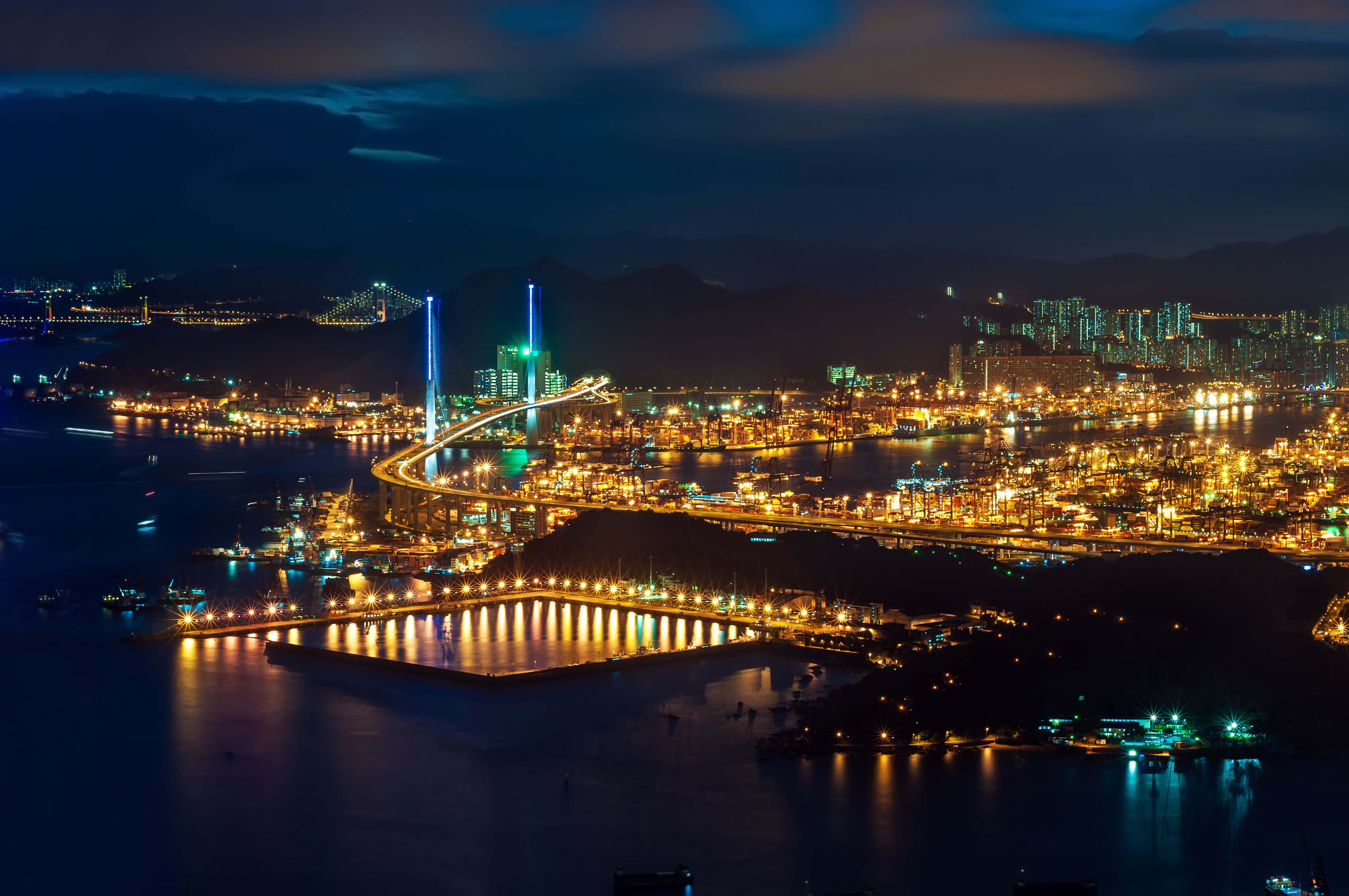 Stonecutters Bridge Hong Kong at night